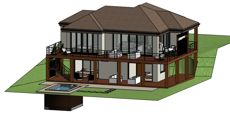 Modelling example in Revit 2015